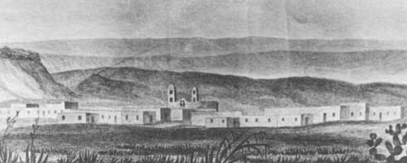 San Miguel del Vado (1846) from Report of J. W. Albert of his Examination of New Mexico in the Years 1846-1847 (1848)